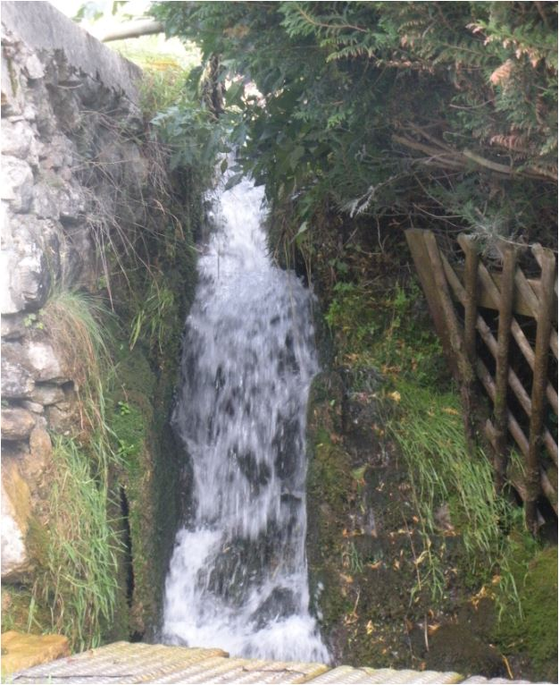 Waterfall of a stream.